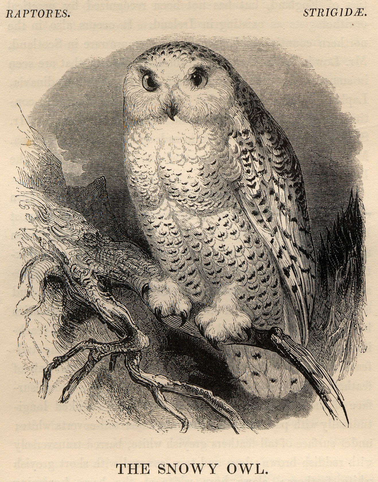 Snowy Owl from Yarrell History of British Birds 1843, drawn by Alexander Fussell and engraved by John Thompson.